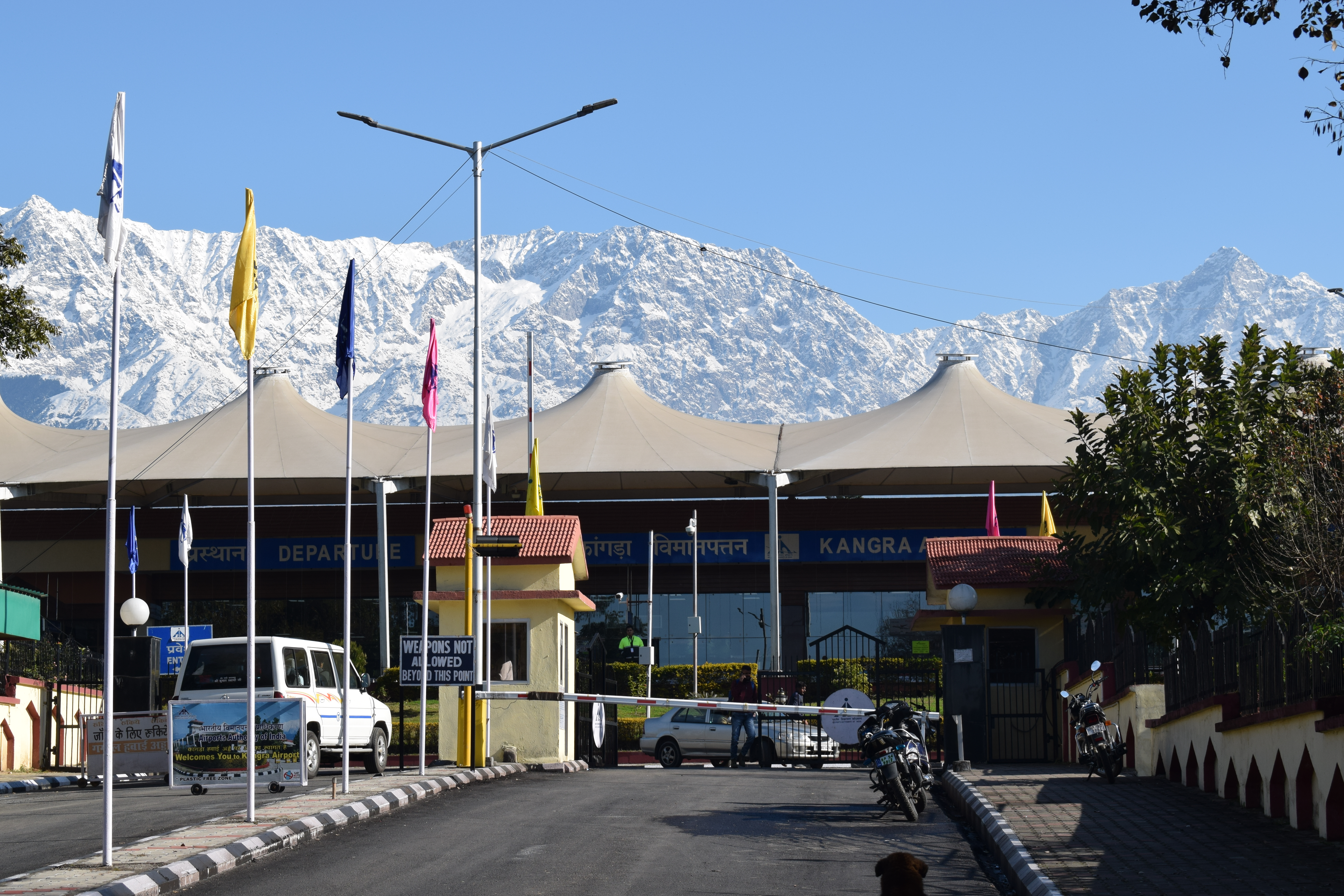 Kangra/Dharamsala airport, Code: DHM, in Gagal, Himachal Pradesh.